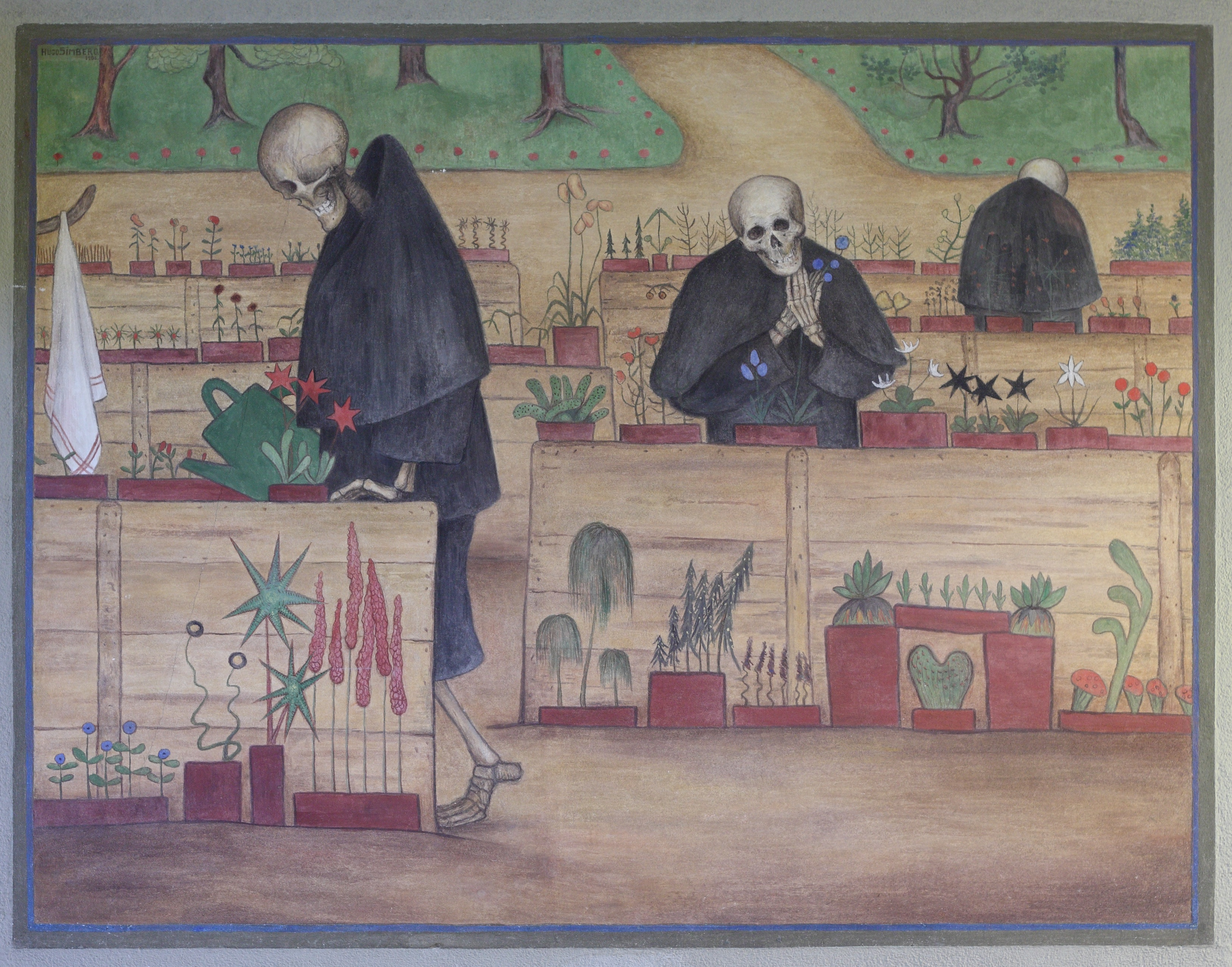 The Garden of Death fresco by Hugo Simberg in Tampere Cathedral, Finland